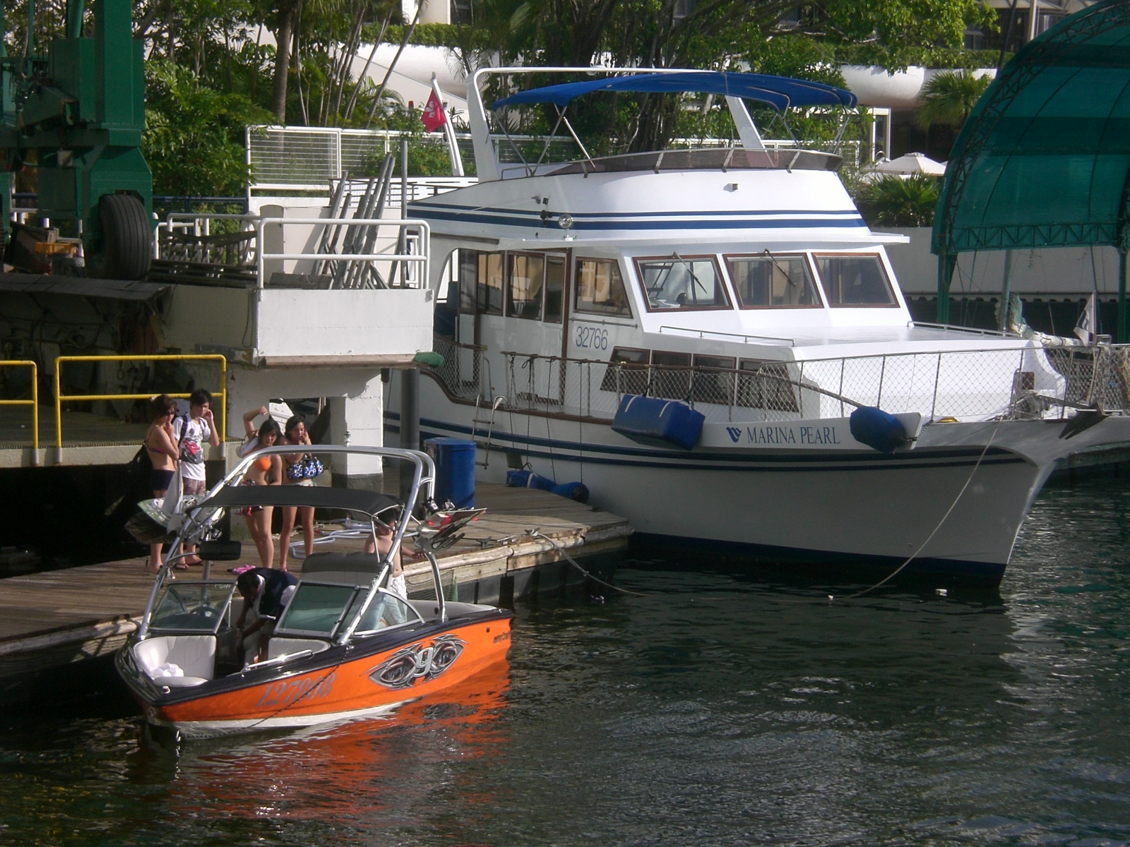 深灣道 深灣遊艇俱樂部 遊艇 碼頭